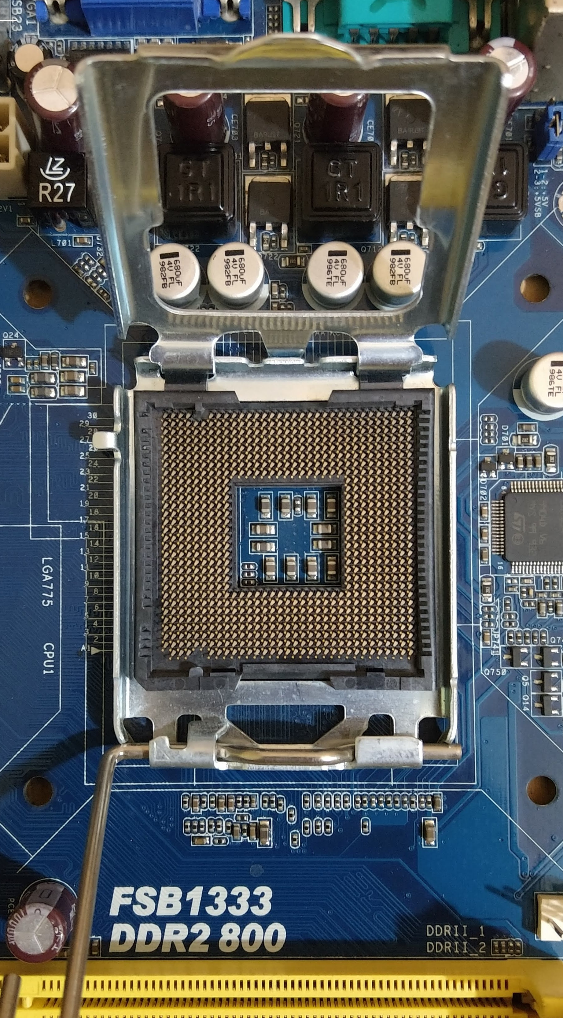 Socket 775 on a ASRock N73PV-S motherboard